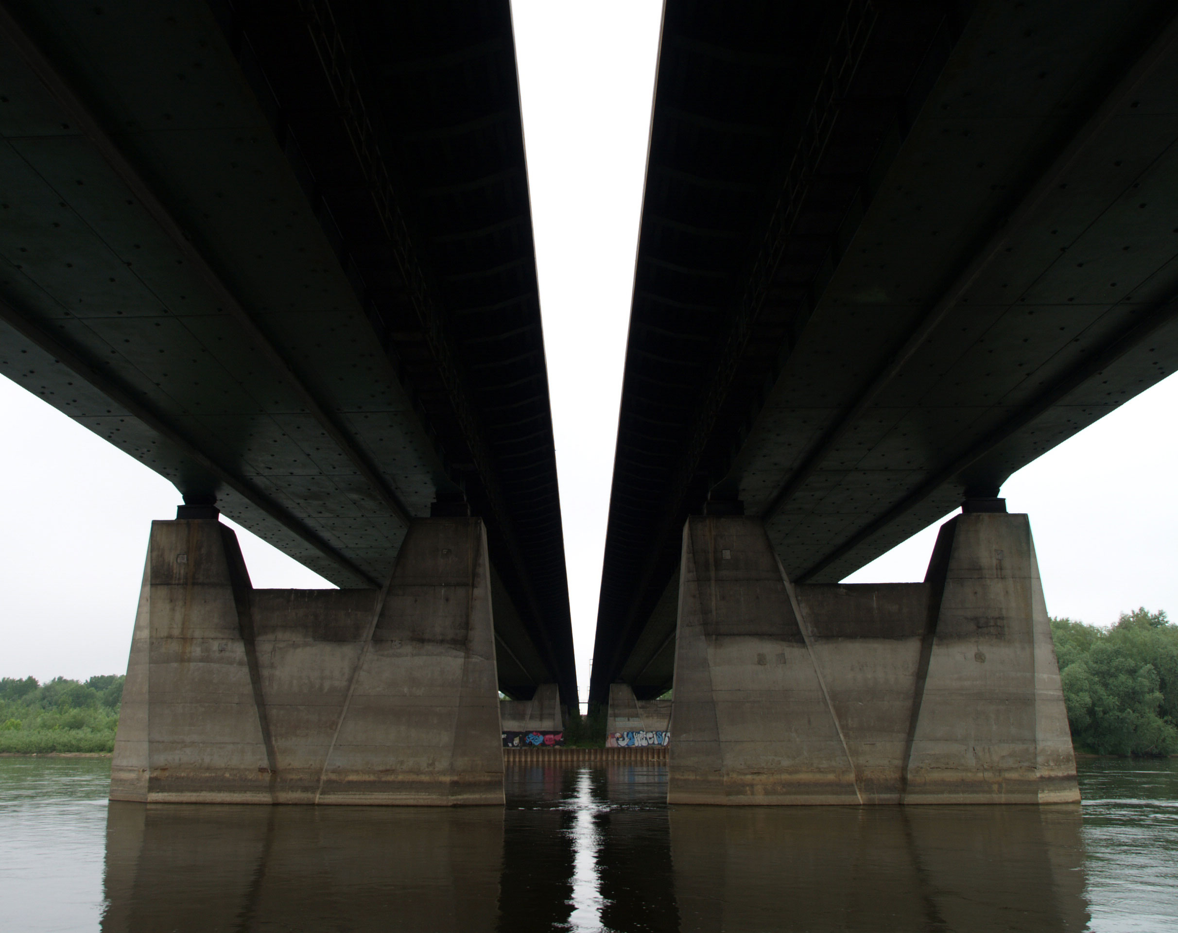 Stefan Grot-Rowecki bridge in Warsaw, Poland